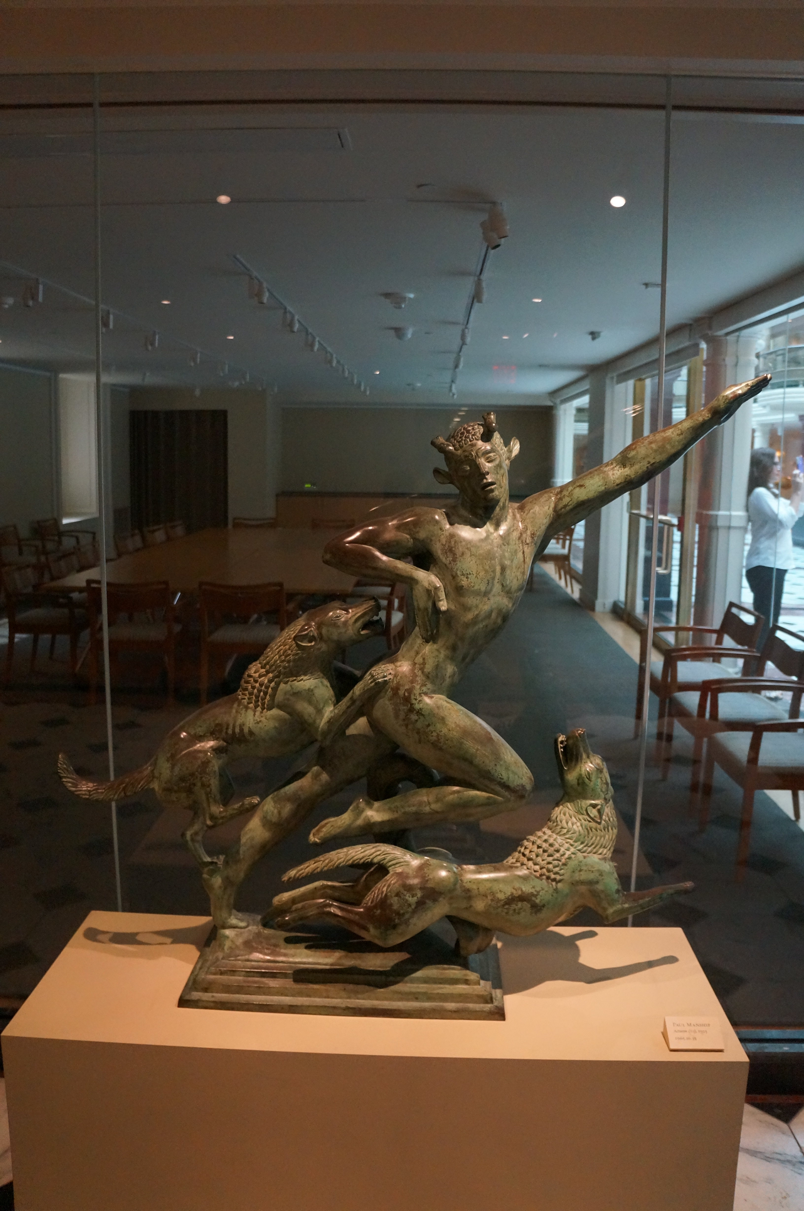 Diana and Actaeon Statutes (1925) by Paul Manship